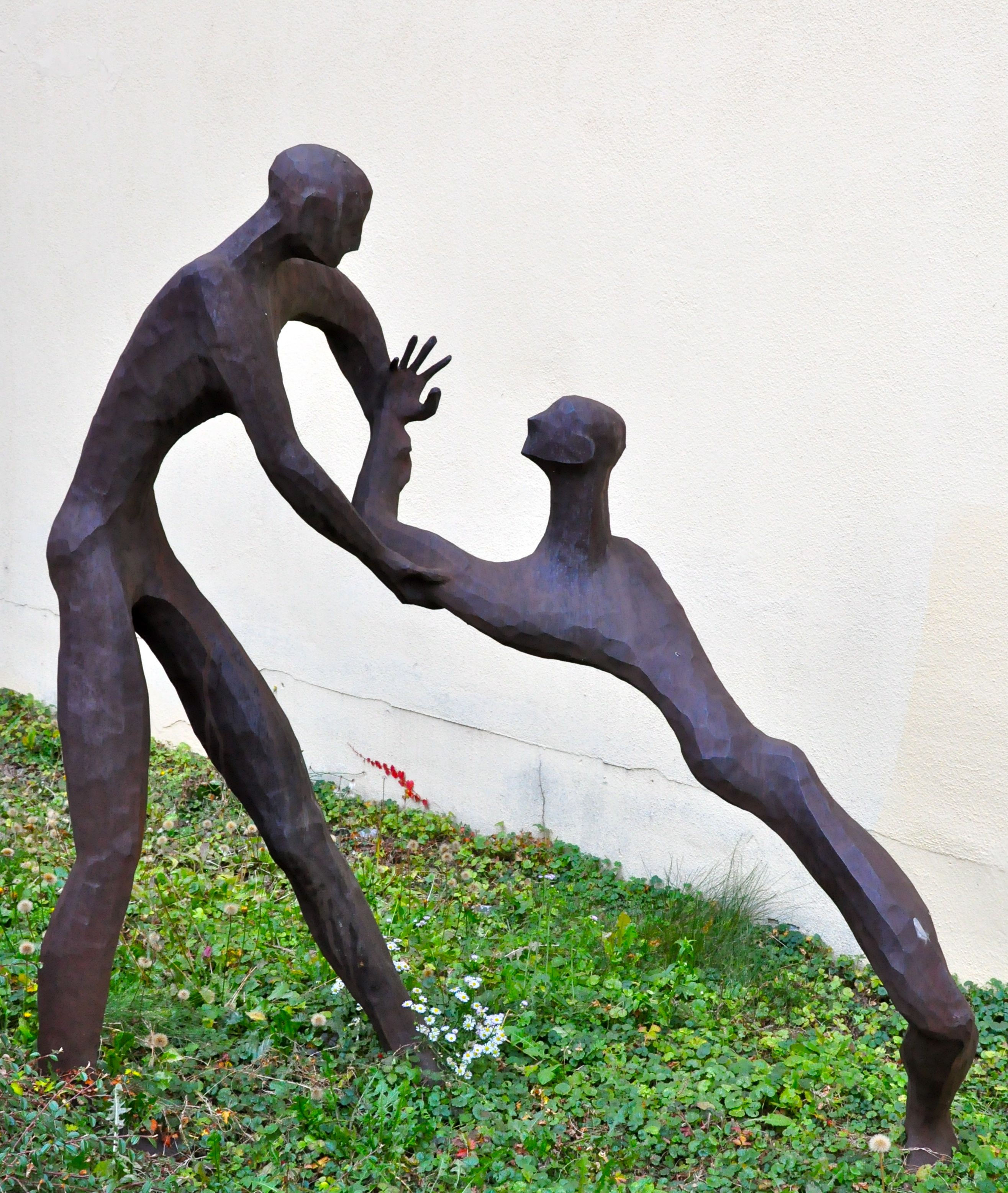 Anaste, steel sculpture group created by the sculptor Jan Milan Krkoška for the Caritas on the Adolf-Kolping-Gasse #4 in the inner city of the capital Klagenfurt, municipality Klagenfurt am Wörthersee, Carinthia, Austria